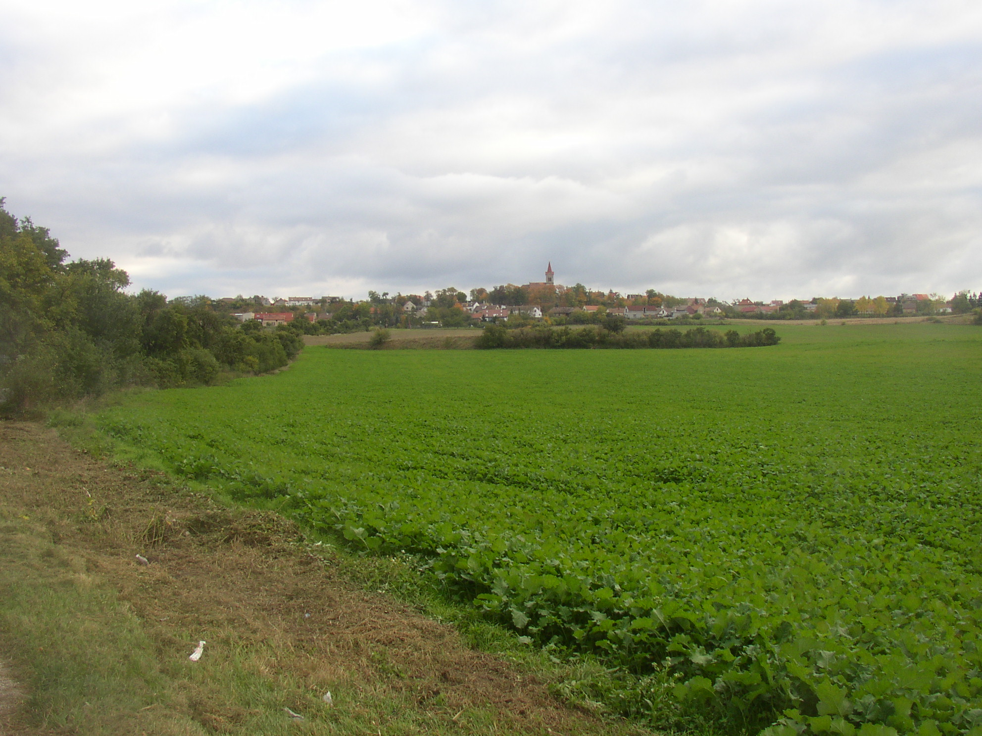 Dolín (part of Slaný town, Kladno District, Czech Republic). General view from the north.